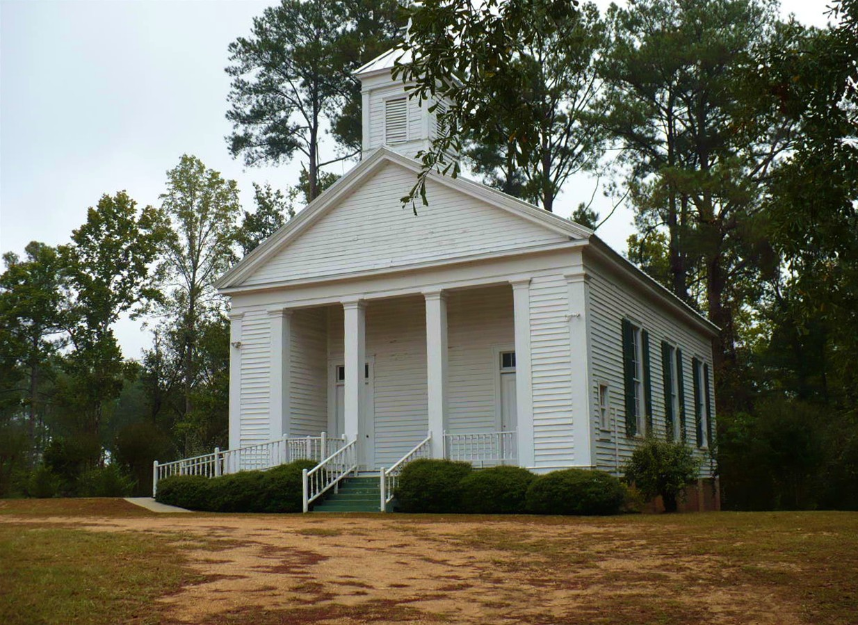 The Jefferson Methodist Church in the Jefferson Historic District, in Jefferson, Alabama, United States. The Greek Revival style church was built in 1856.